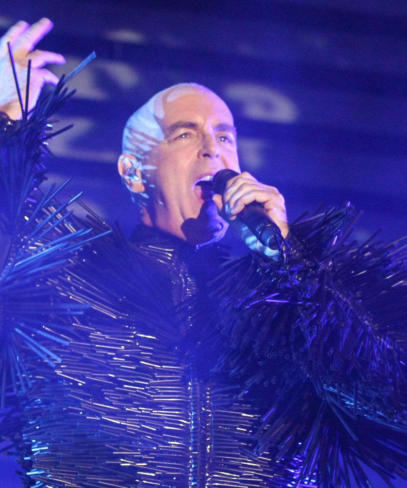 Pet Shop Boys performing at Berlin Festival 2013